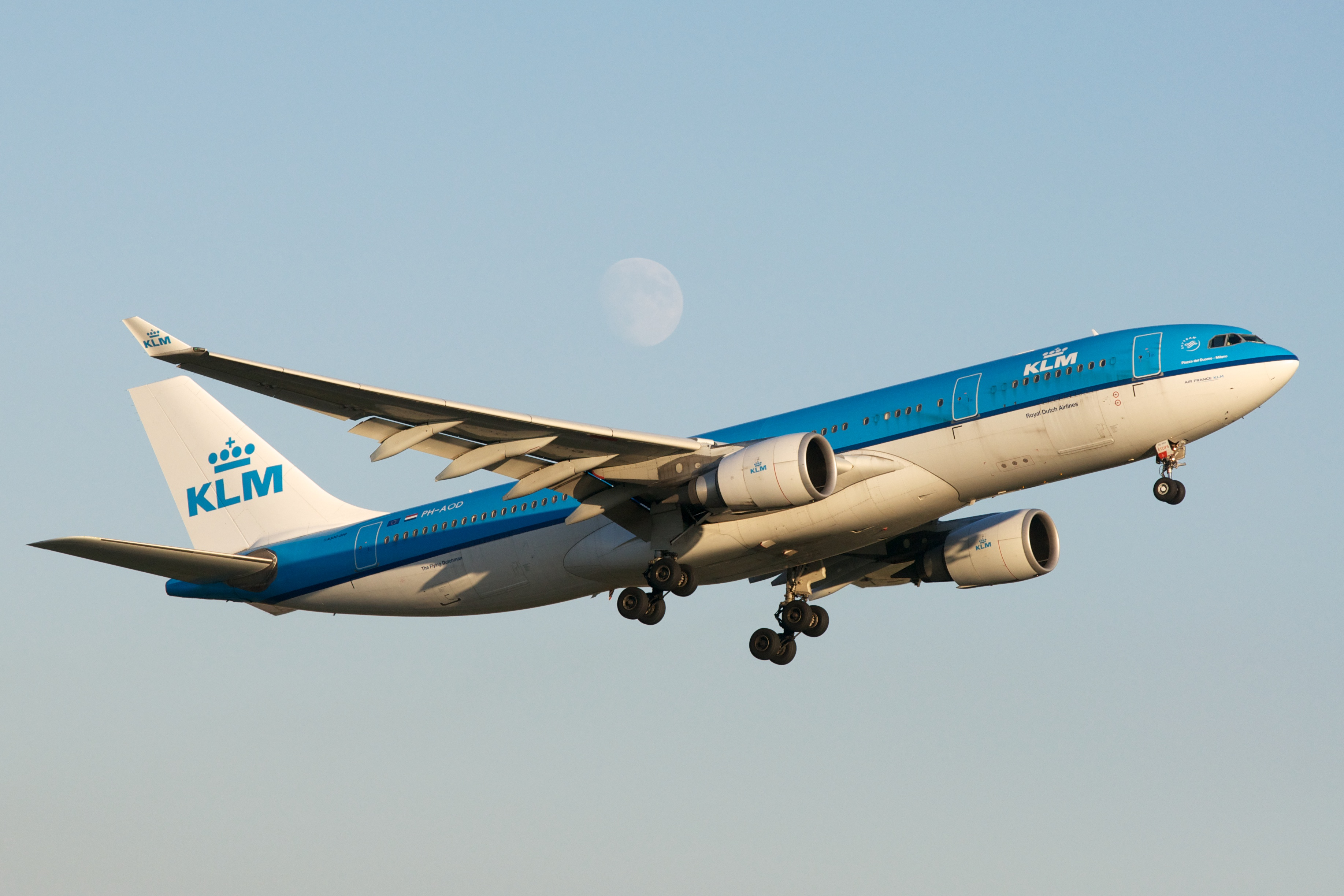 Airbus A330-200 PH-AOD of KLM in Toronto Pearson International Airport, Canada (October 2011).